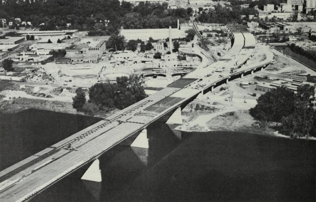 Construction of I-391 in 1979-1980, over the Connecticut River looking towards Holyoke, Massachusetts